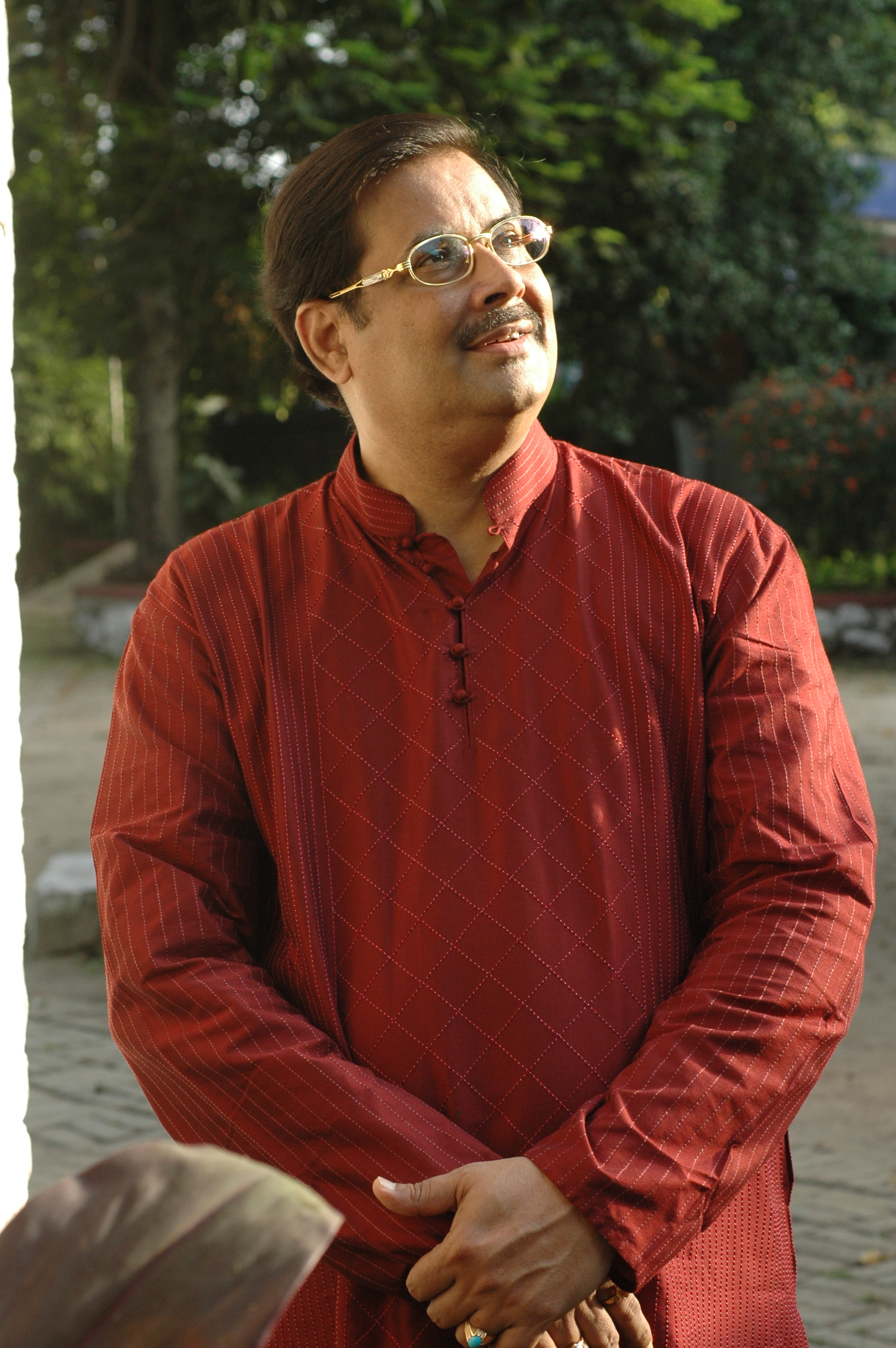 He is one of the most powerful vocalist of indian classical music.